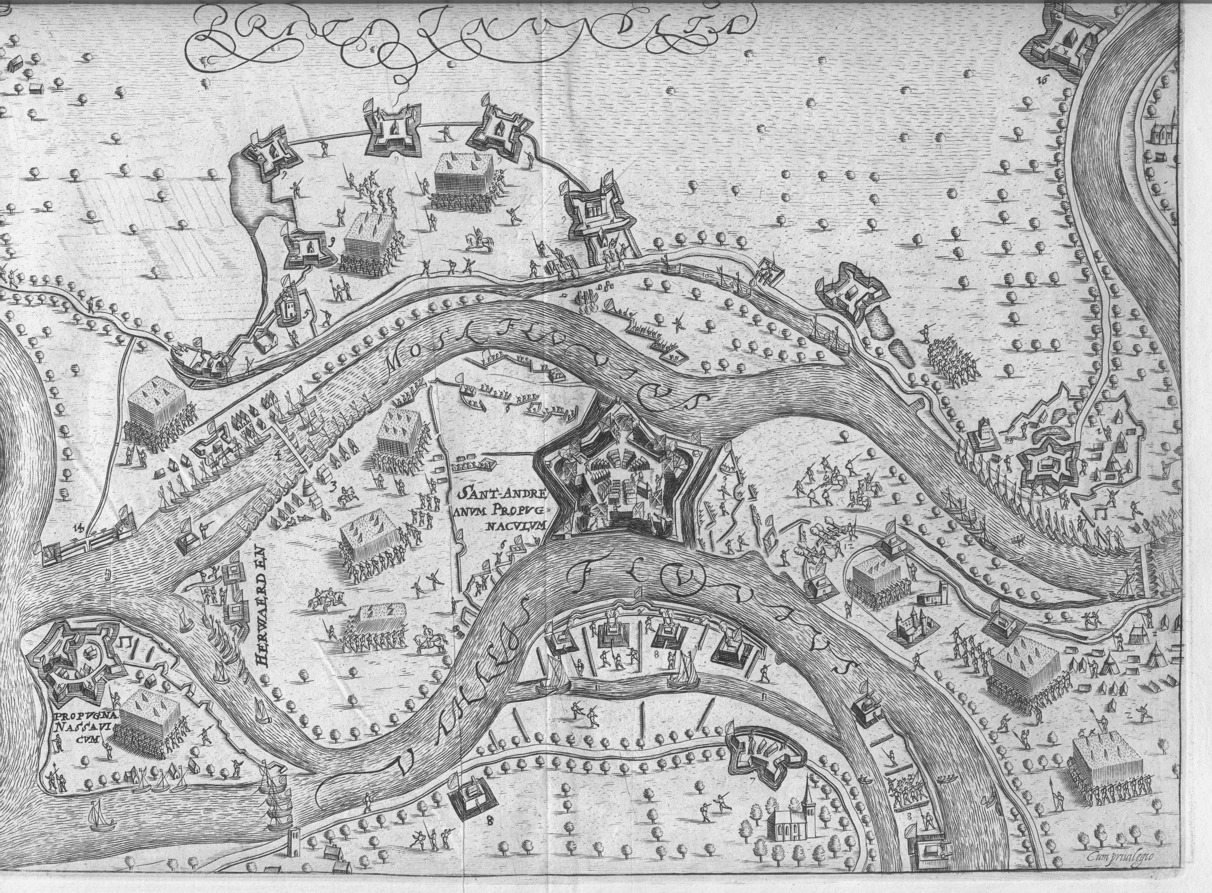 Siege of the Spanish fort ST. Andries (between Rossum and Heerewaarden, Netherlands) by the Dutch.